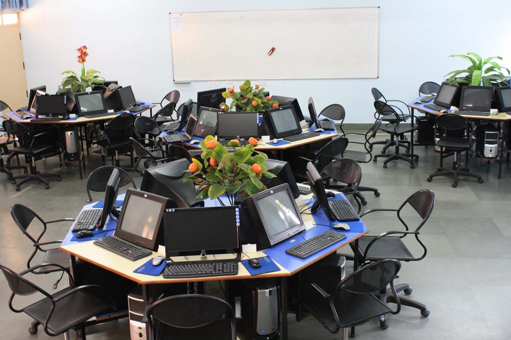 Computer Lab